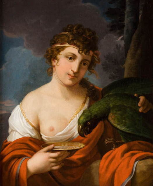 Hebe